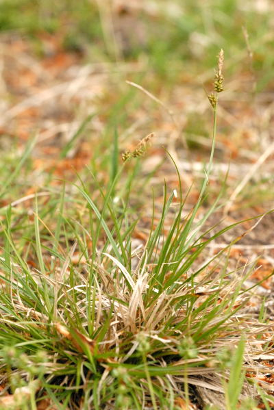 Carex pilulifera from Commanster, Belgian High Ardennes .